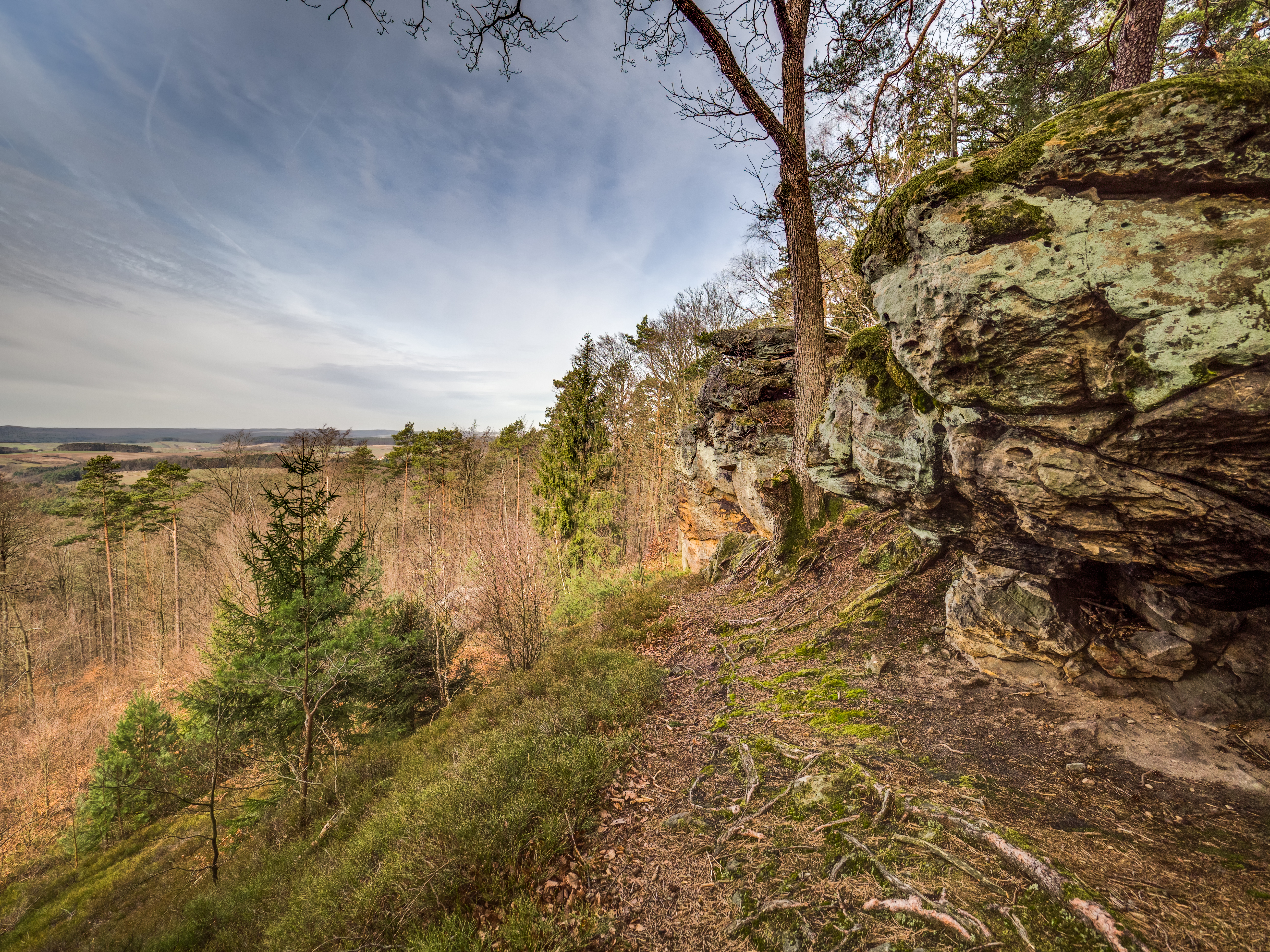 View from Veitenstein in the nature park Haßberge